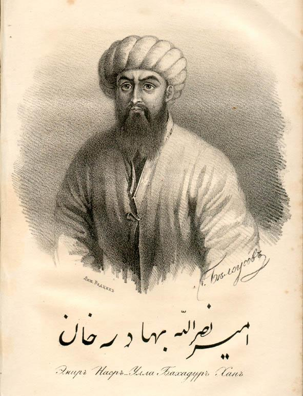 Emir of Bukhara Nasrulla (1827-1860)